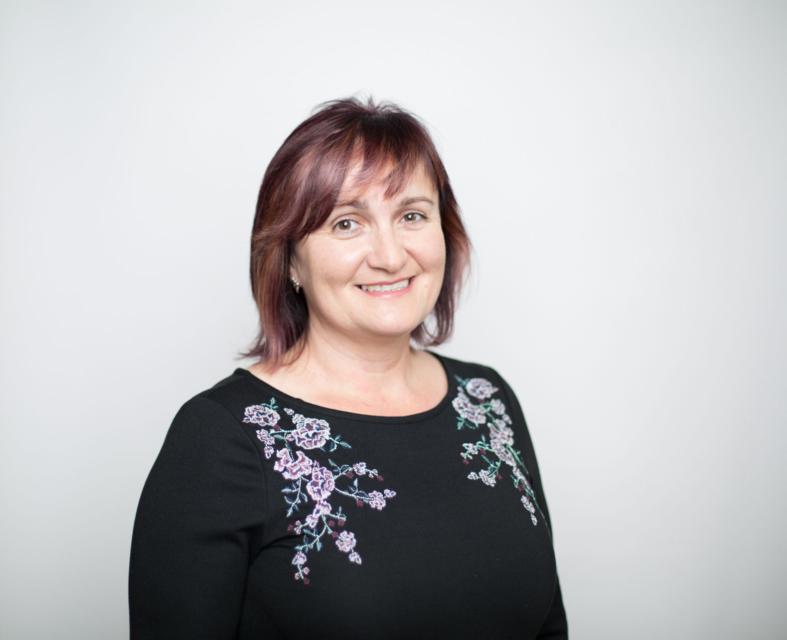 Hana Žáková is from 2018 member of the Senate of the Parliament of the Czech Republic